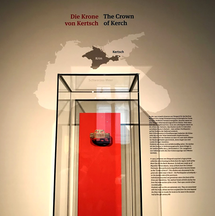 The Crown of Kerch in Berlin, Germany